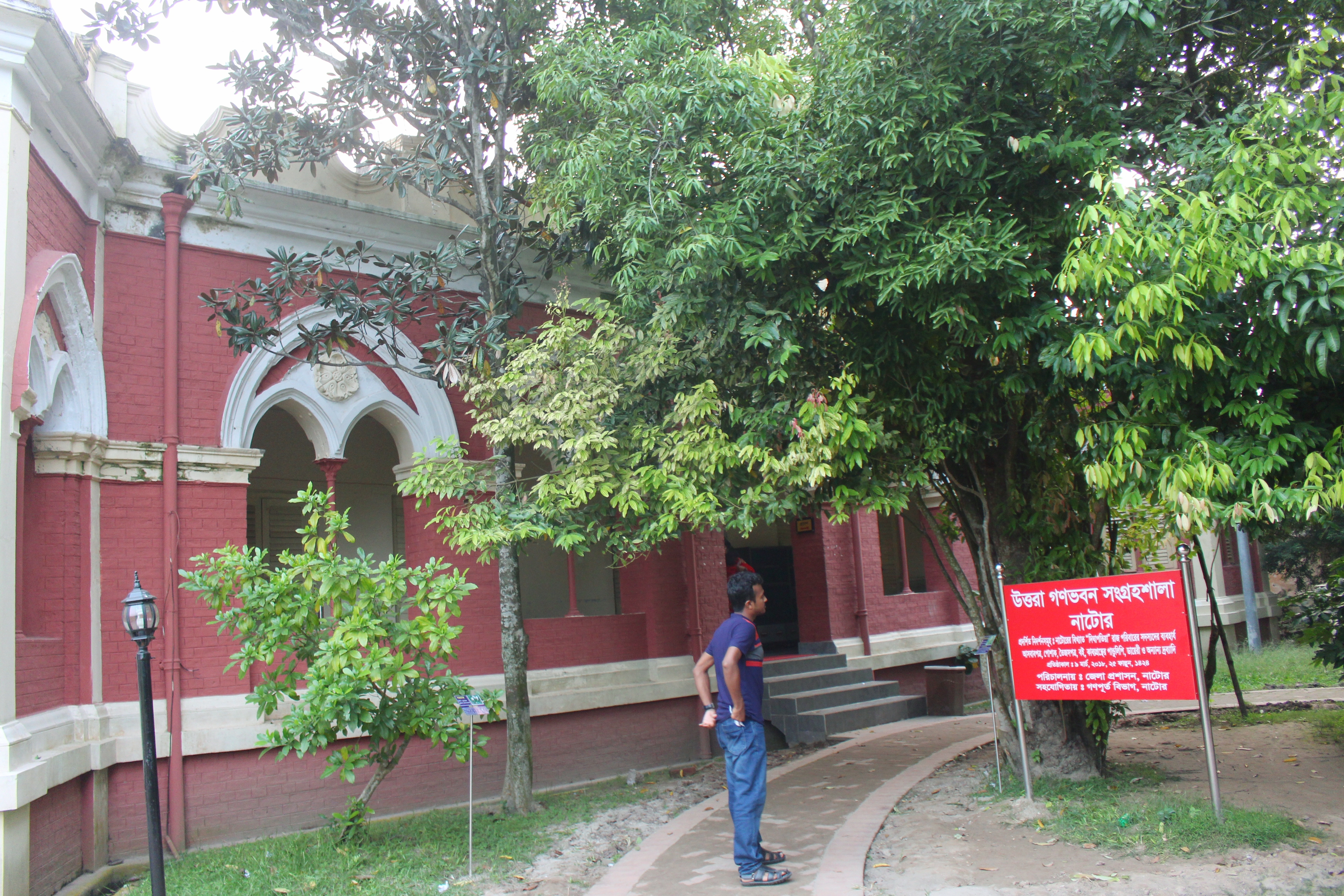 Uttara Gonovaban Museum